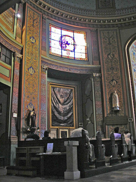 Interior of St. Ladislav's Church in Bratislava, Slovakia